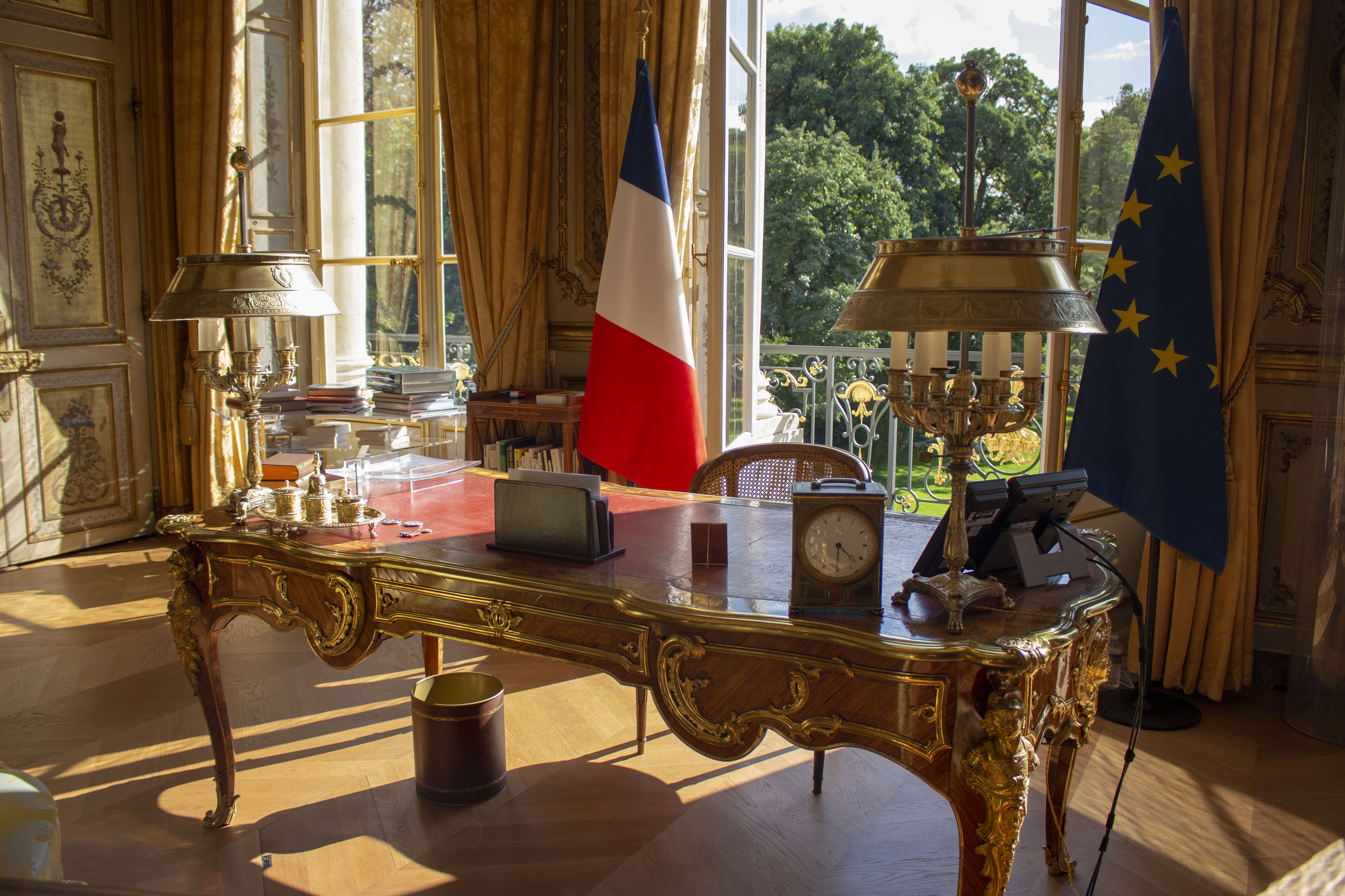 Office of the president of the French Republic.